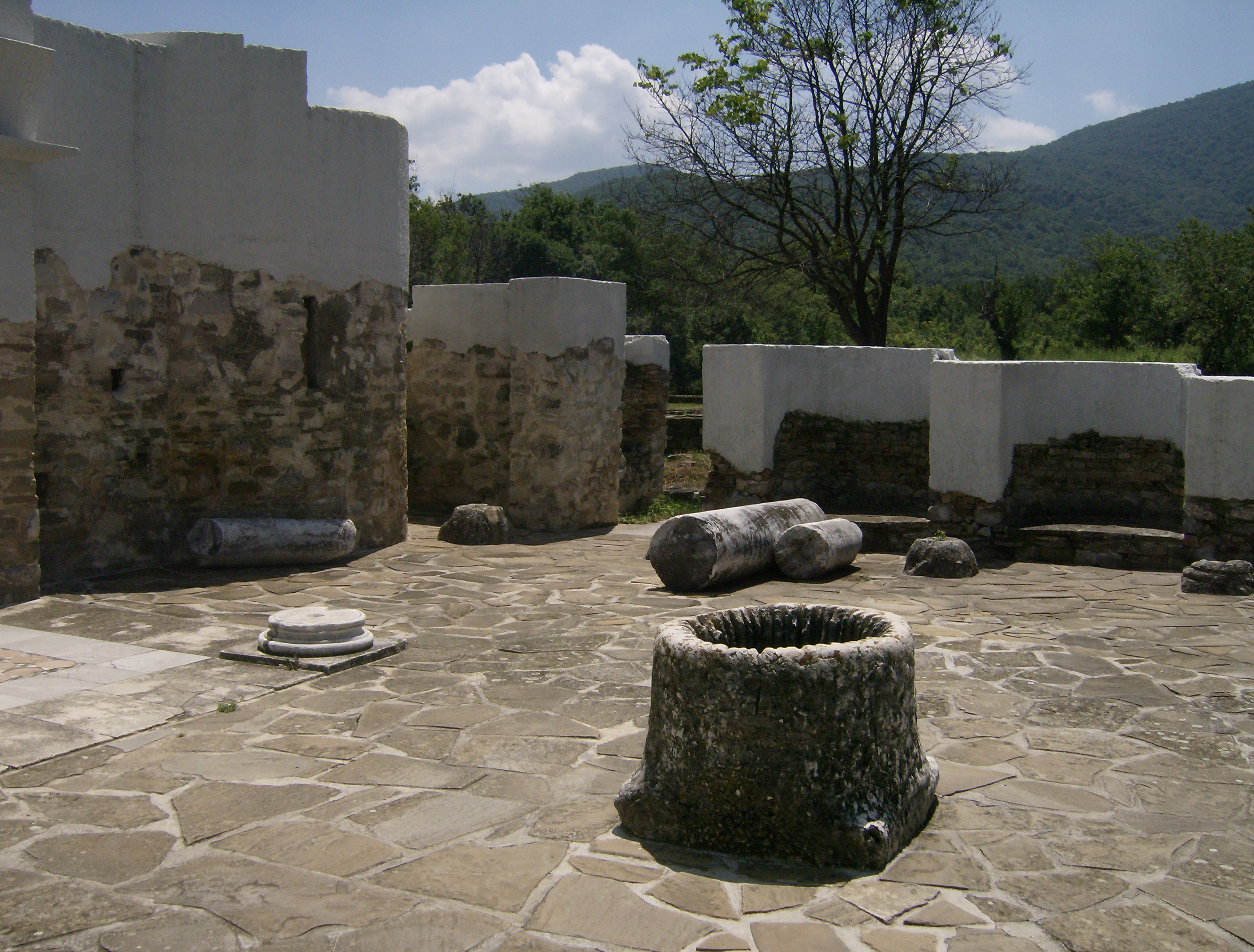 Preslav Fortress